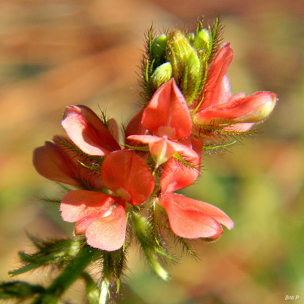 This is a pretty little non-native (weed) legume that grows well in disturbed and waste areas. It is native to Asia & Africa and was introduced into Florida intentionally. I. hirsuta is a good nitrogen fixer and has been used medicinally for several ailments including cerebral disorders, diarrhea and yaws (a tropical infection). Extracts exhibit antibacterial properties. This is one of the Indigofera plants that has been use to make indigo dye. It has also been used as green manure, grown and then plowed under to improve the poor soil. While photographing this, I found another Indigofera species I'll post tomorrow.